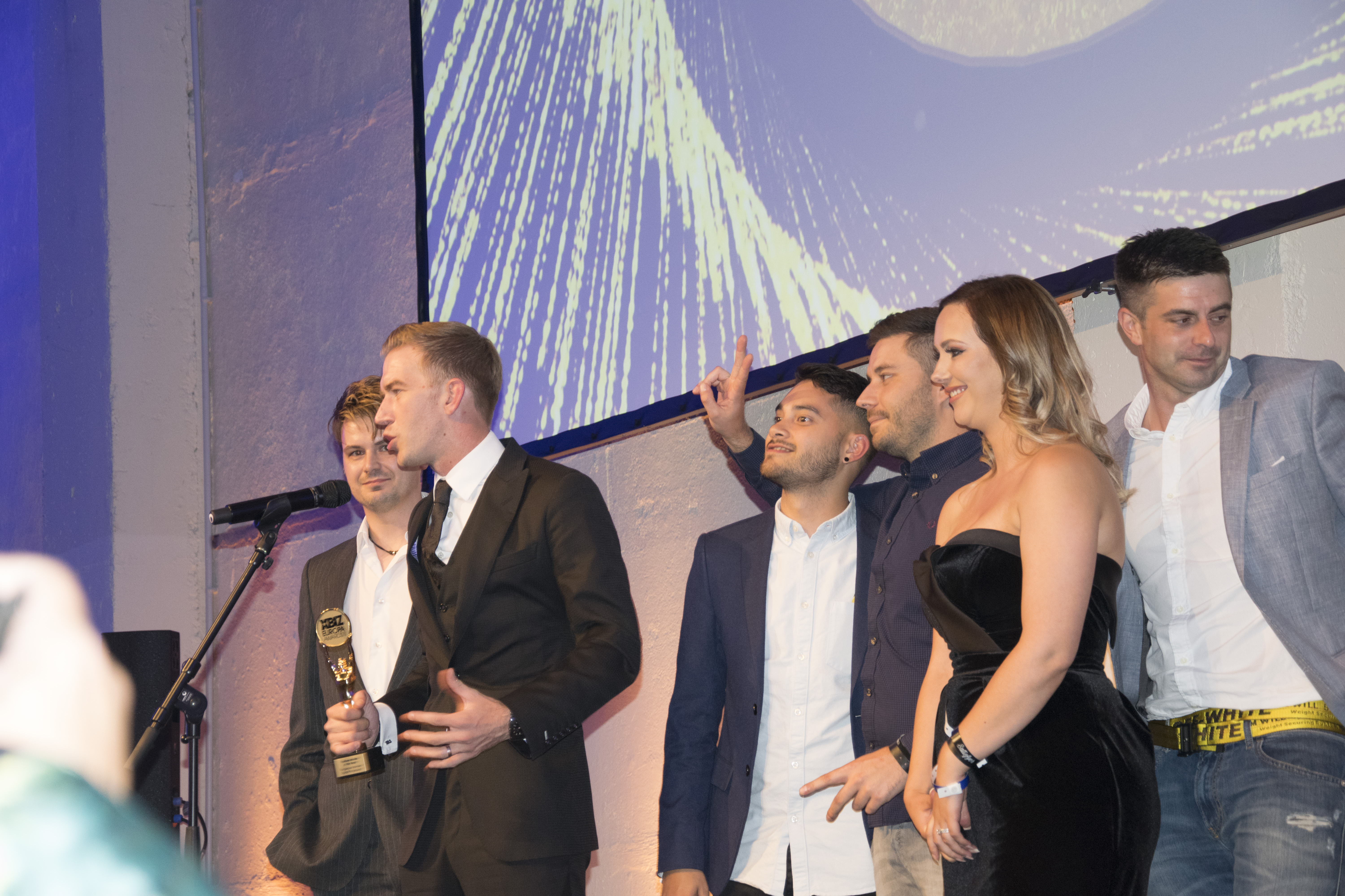 Actor Danny D and producer Sophia Knight, receiving the Best Feature prize at the Xbiz Europa Awards in Berlin, 2019